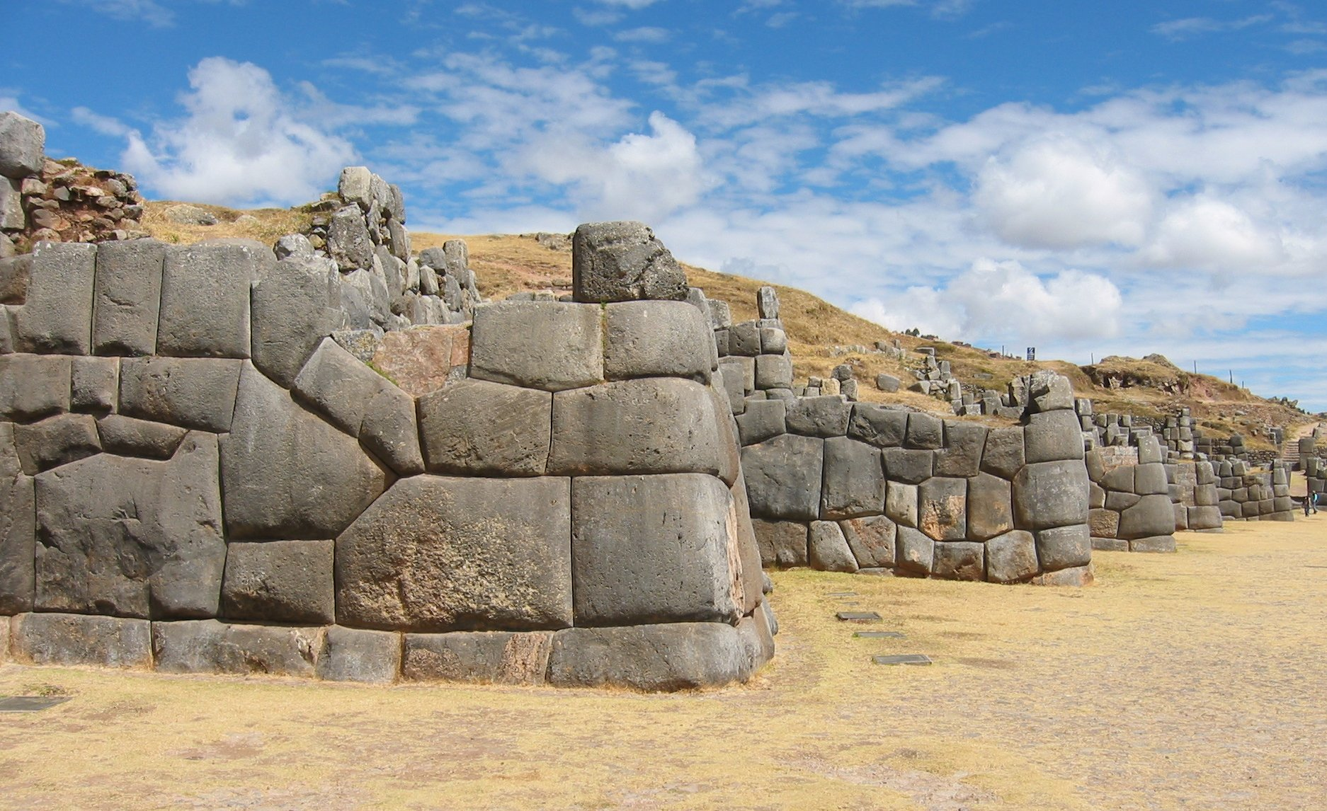 Walls of the Sacsayhuaman ruin at Cusco.